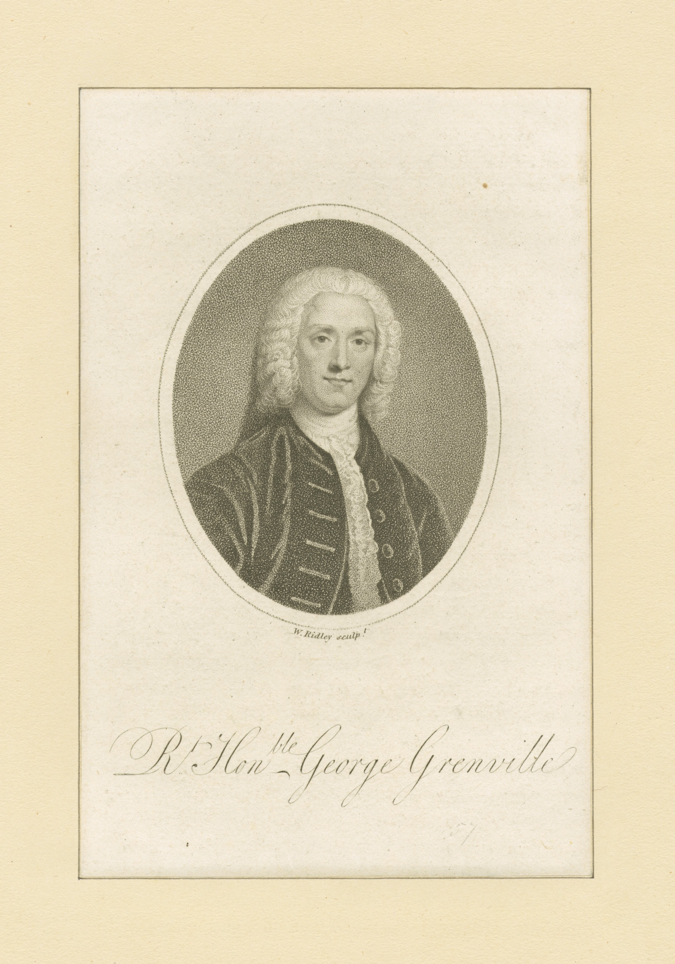 Includes photomechanical reproductions. Title from Calendar of Emmet Collection. EM10770 Statement of responsibility : W. Ridley